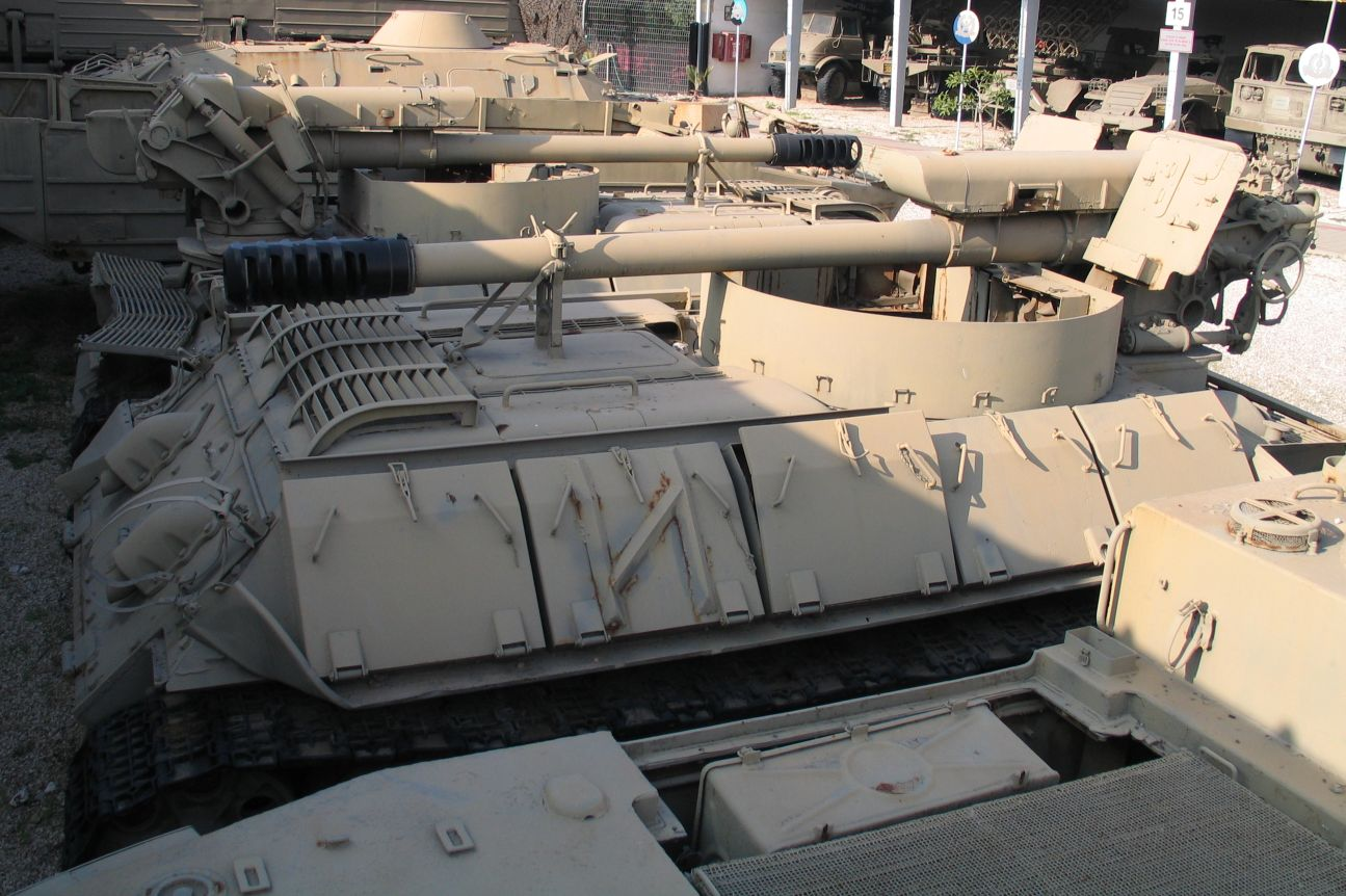 Description: D-30 howitzer mounted on a T-34 tank chassis in Batey ha-Osef Museum, Tel Aviv, Israel. 2005. Source: Photo by me, User:Bukvoed.